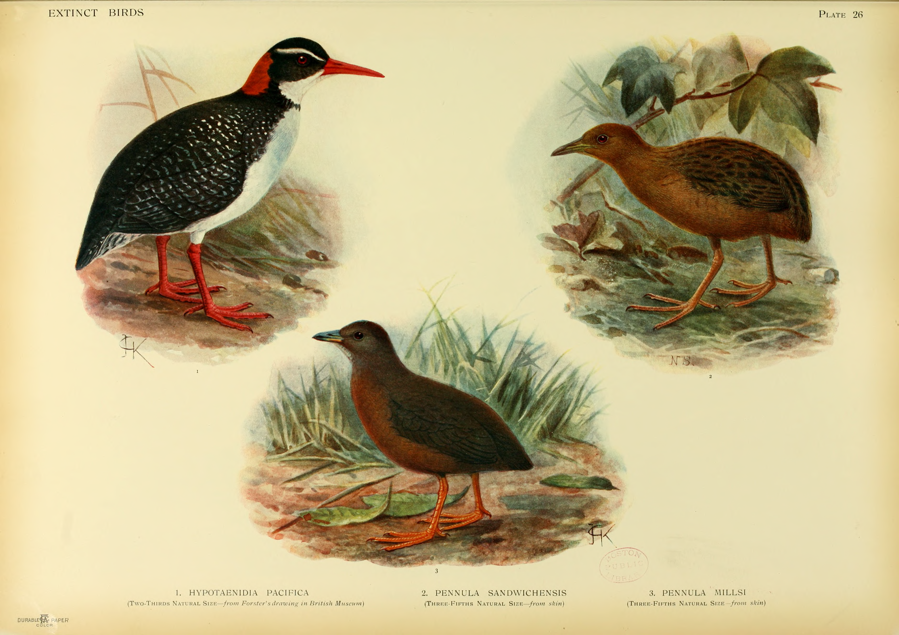 The Tahitian Red-billed Rail (Gallirallus pacificus, synonym: Hypotaenidia pacifica) or Tahiti Rail is a poorly-known extinct species of rail. It once occurred on Tahiti. The other two birds are Hawaiian Rail (Porzana sandwichensis, synonyms: Pennula sandwichensis, Pennula millsi), Hawaiian Spotted Rail, or Hawaiian Crake was a somewhat enigmatic species of diminutive rail that lived on Big Island, Hawaiʻi, but is now extinct.